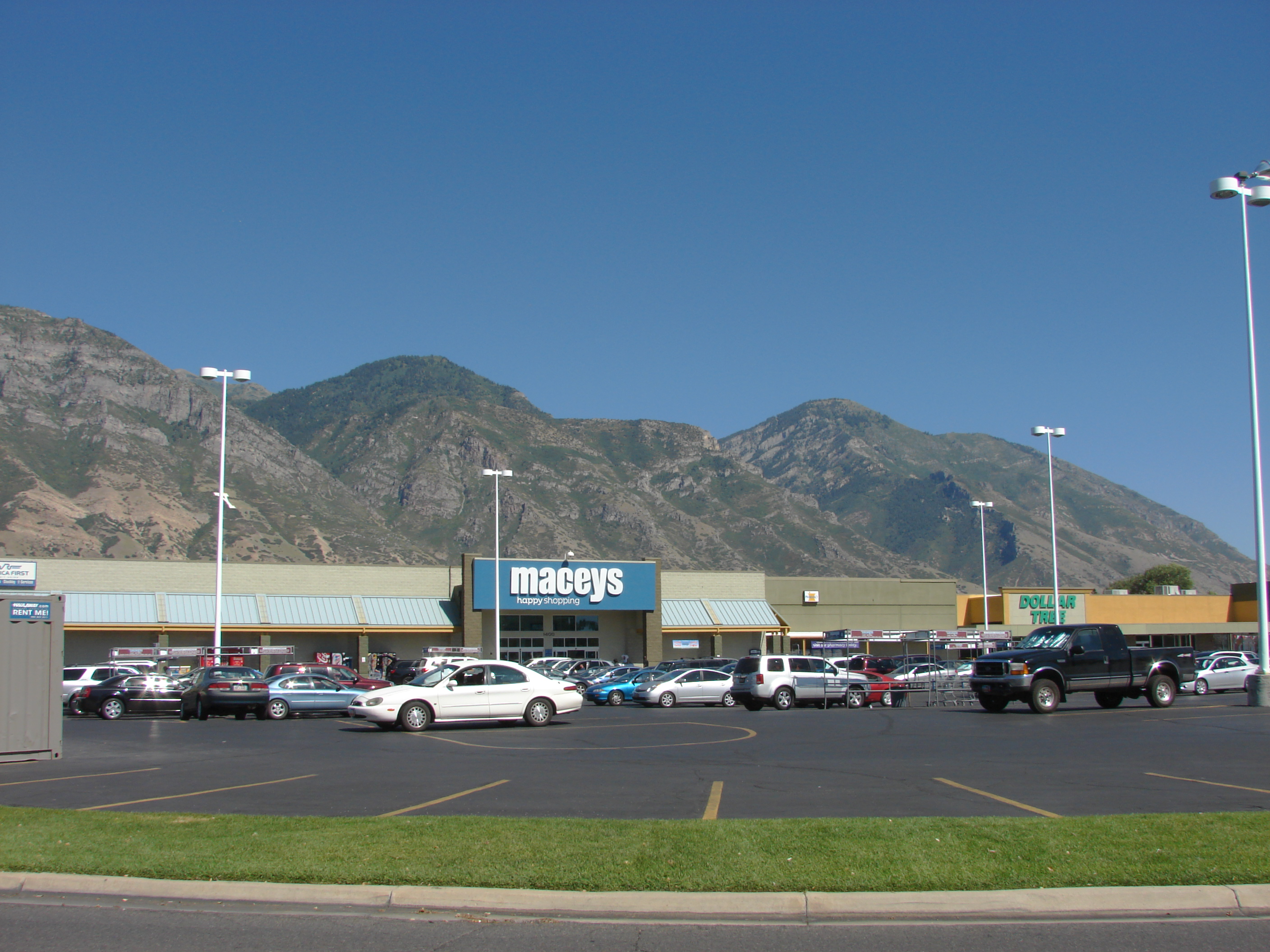 The Provo, Utah Macey's store